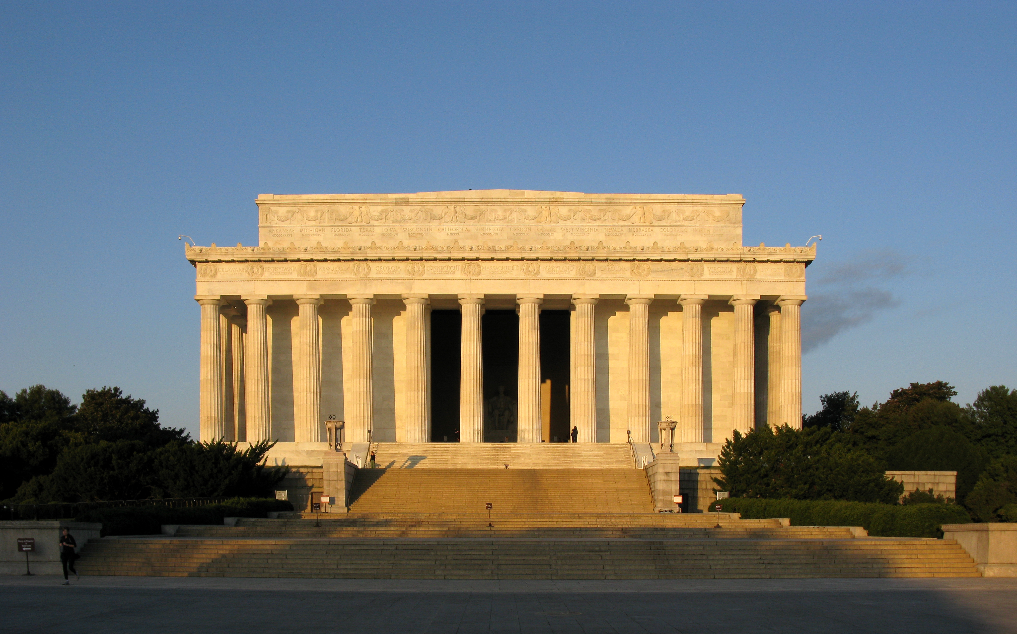 “In this temple, as in the hearts of the people for whom he saved the Union, the memory of Abraham Lincoln is enshrined forever.” Beneath these words, the 16th President of the United States—the Great Emancipator and preserver of the nation during the Civil War—sits immortalized in marble. As an enduring symbol of Freedom, the Lincoln Memorial attracts anyone who seeks inspiration and hope.